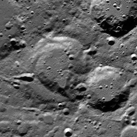 LROC (north at upper right) . Niepce at center, Niepce F at right, Merrill at upper right corner.